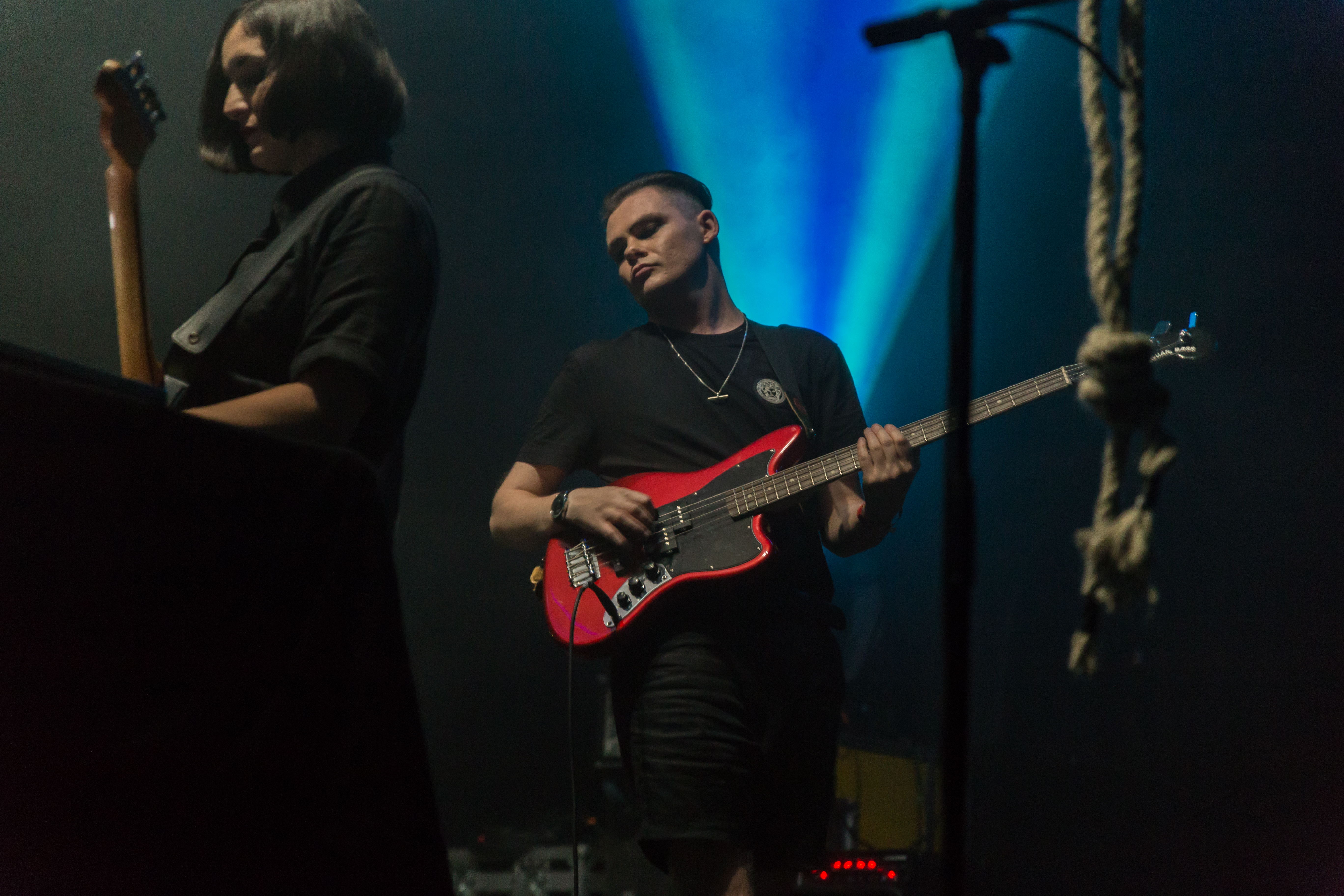 The Swiss-british dark wave band Lebanon Hanover at the Wave-Gotik-Treffen 2017 in Leipzig/Germany (Venue Stadtbad).